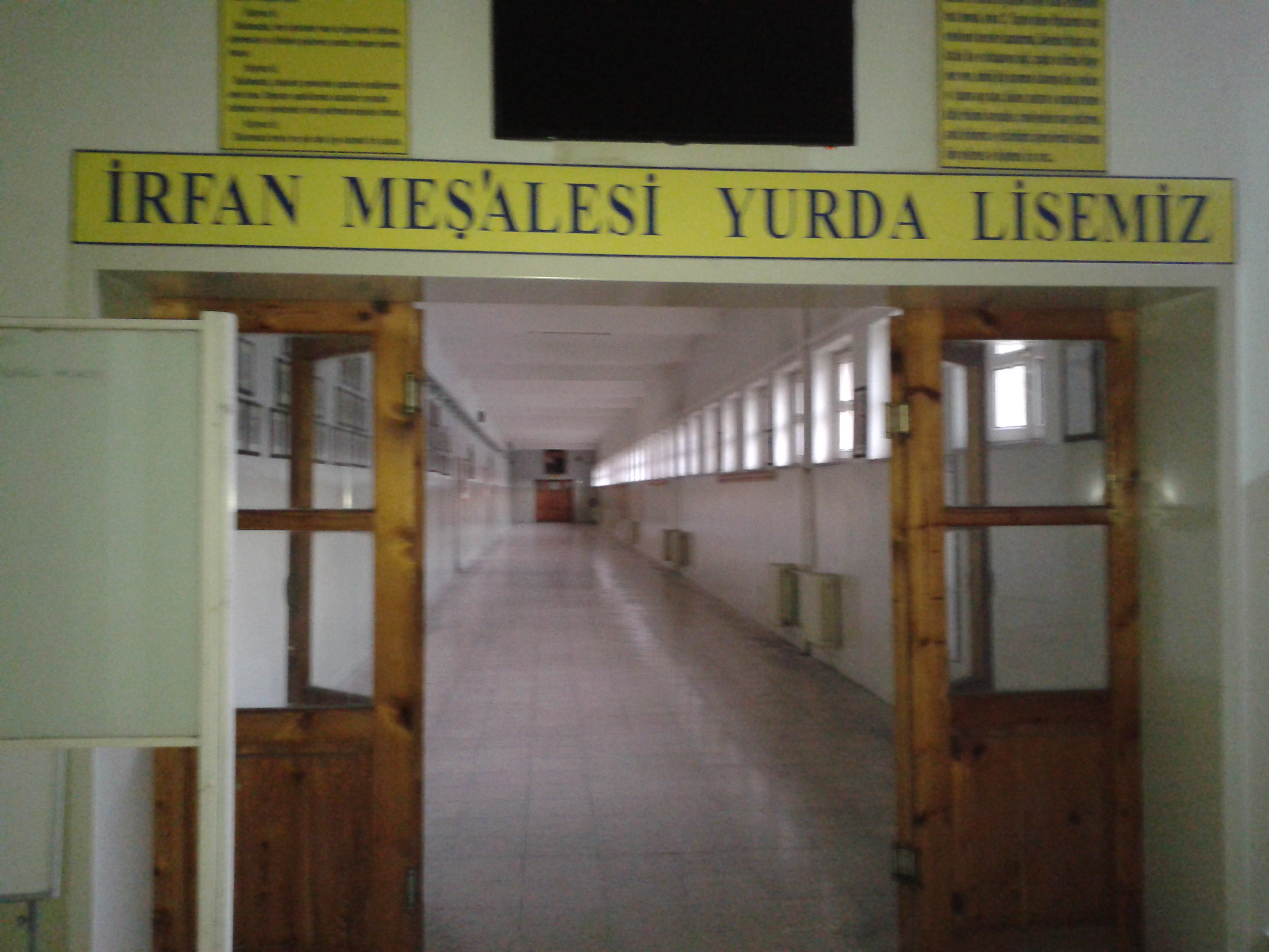 Enter of Abdurrahman Pasha School at Kastamonu,Turkey